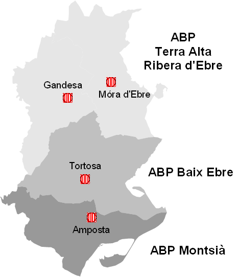 Map of Police Region of Terres de l'Ebre and police stations.